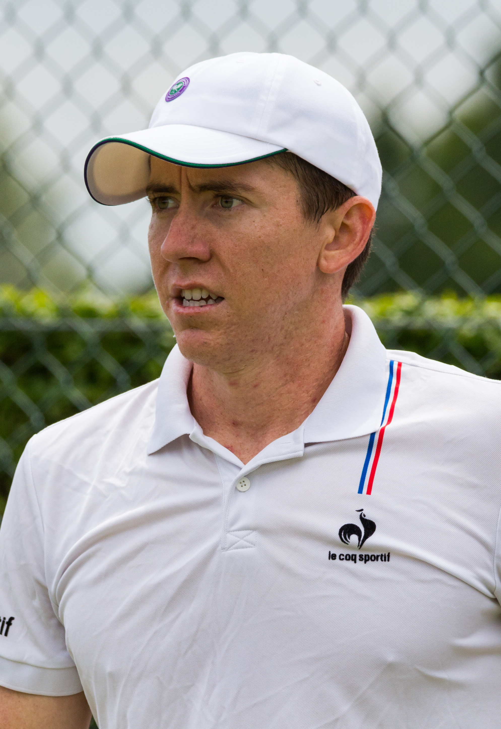 John-Patrick Smith competing in the first round of the 2015 Wimbledon Qualifying Tournament at the Bank of England Sports Grounds in Roehampton, England. The winners of three rounds of competition qualify for the main draw of Wimbledon the following week.